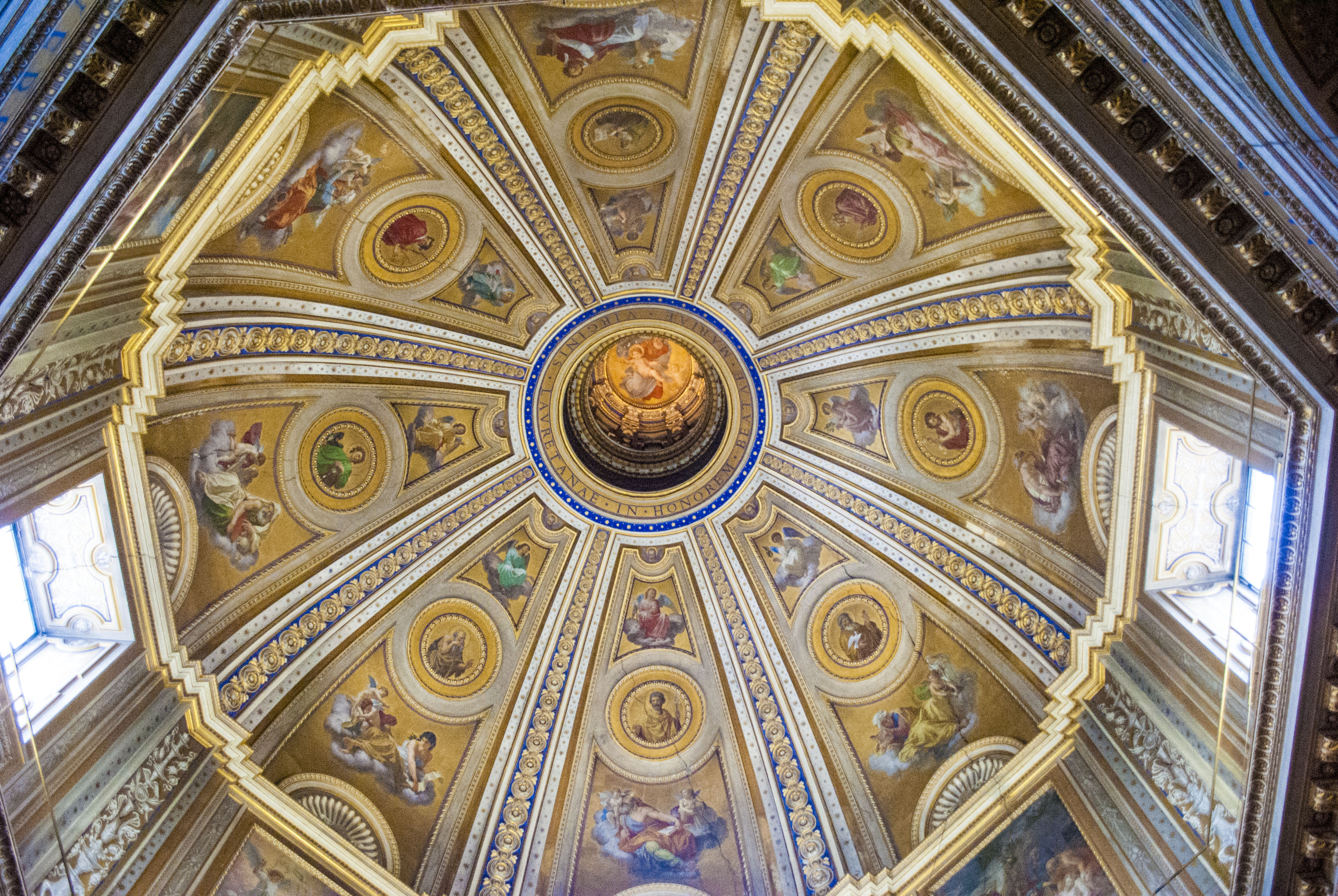 Cupola of Santa Maria di Loreto